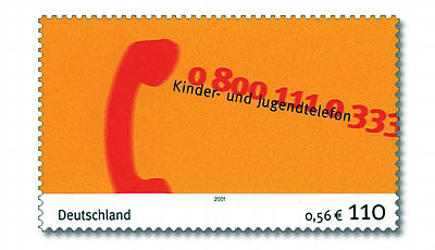 Stamp from Deutsche Post AG from 2001, Child and Youth telephone